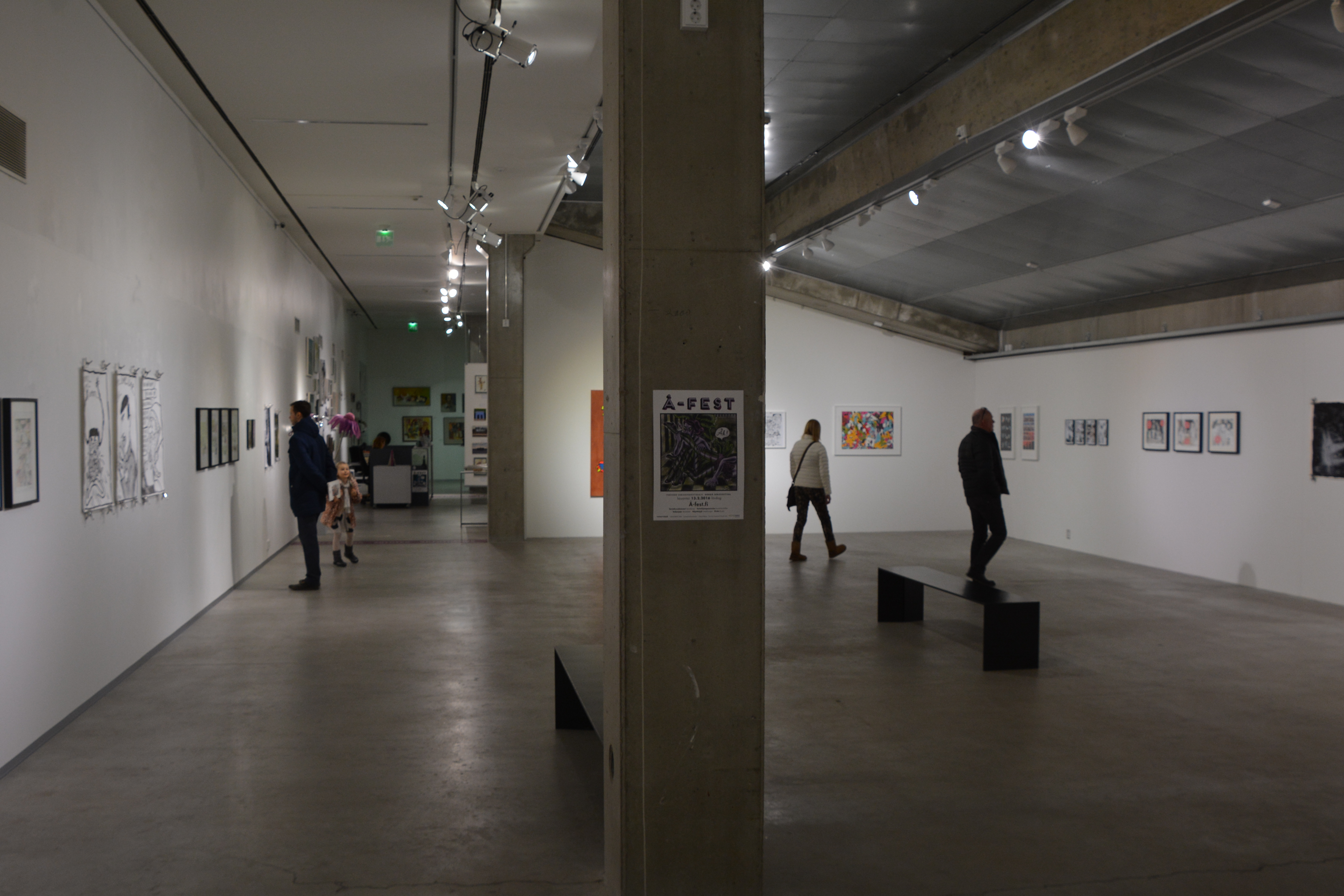 Konsthallen Borgå